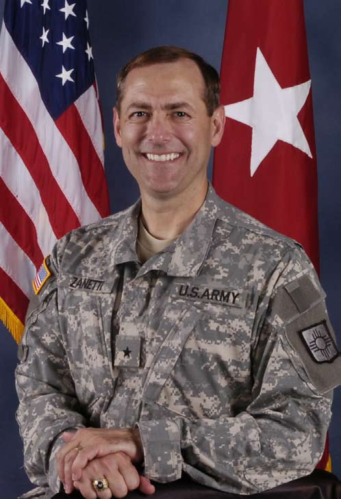 Joint Task Force deputy commander thanks Troopers for a job well done